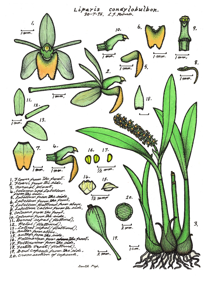 This image is one of a series by Lewis Roberts